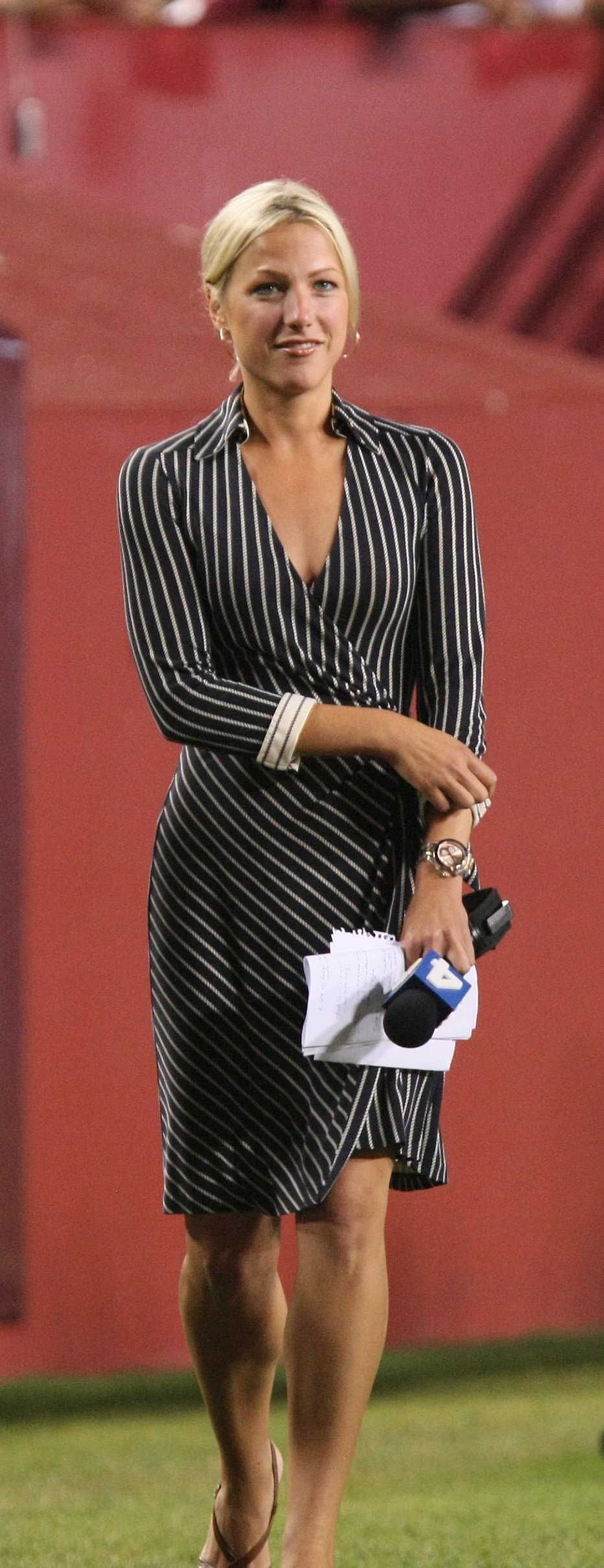 NBC4 Sports Reporter Lindsay Czarniak at the New England Patriots at Washington Redskins game on 08/28/09. Czarniak joined ESPN as a SportsCenter anchor in August 2011